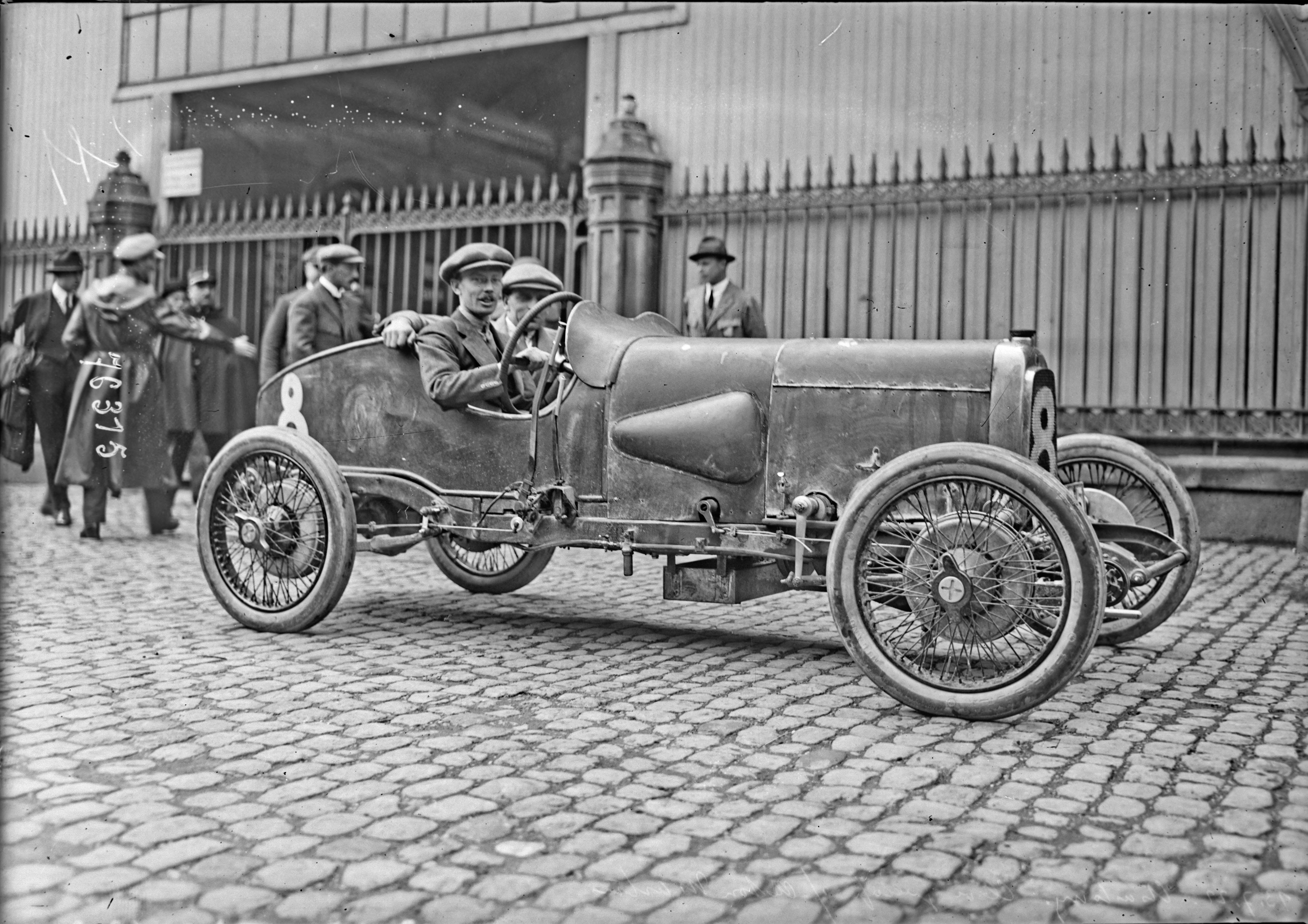 Clive Gallop at the 1922 French Grand Prix